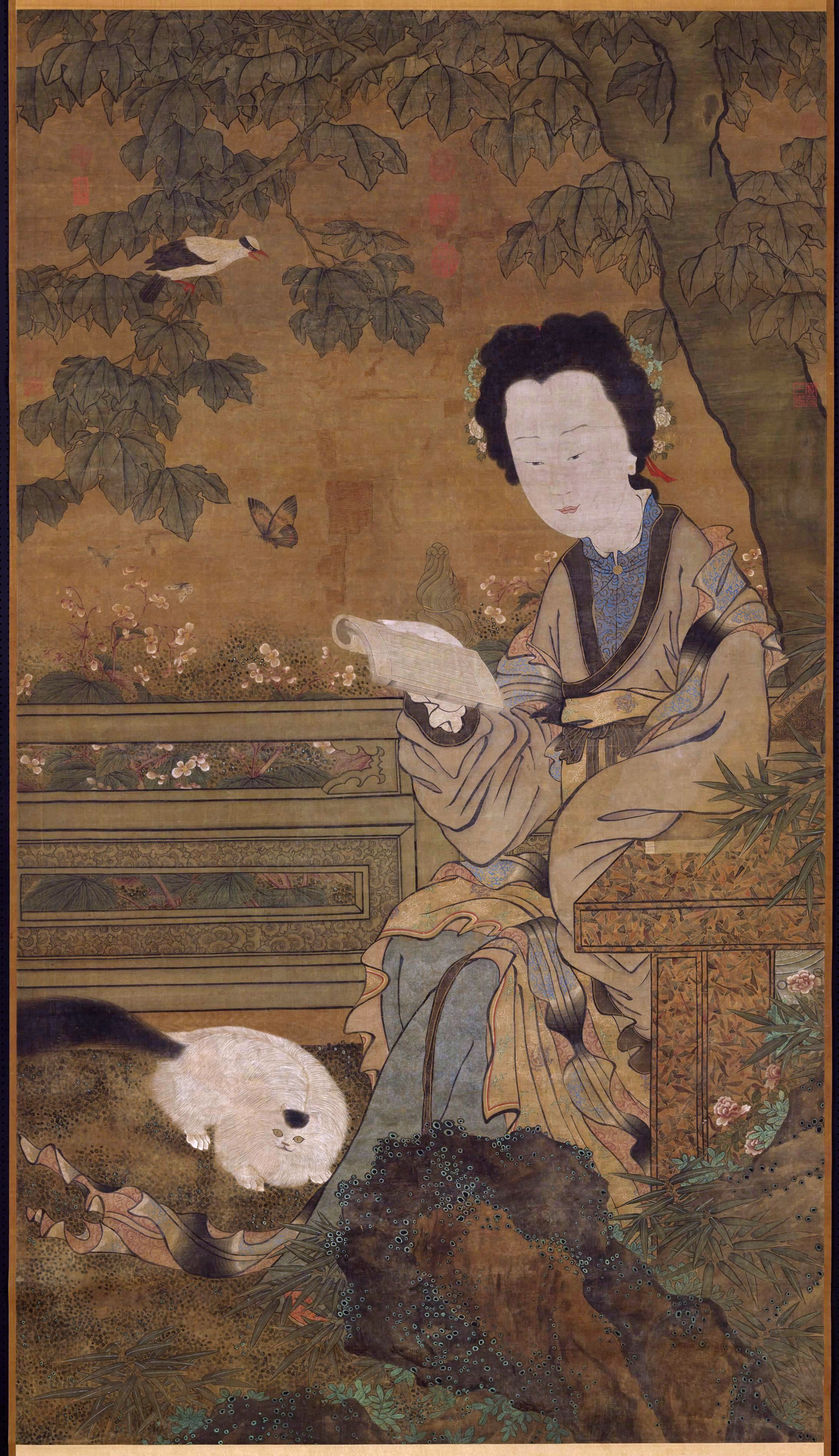 Zhou_Wenjiu._Woman_with_Cat._National_Palace_Museum,_Taipei.